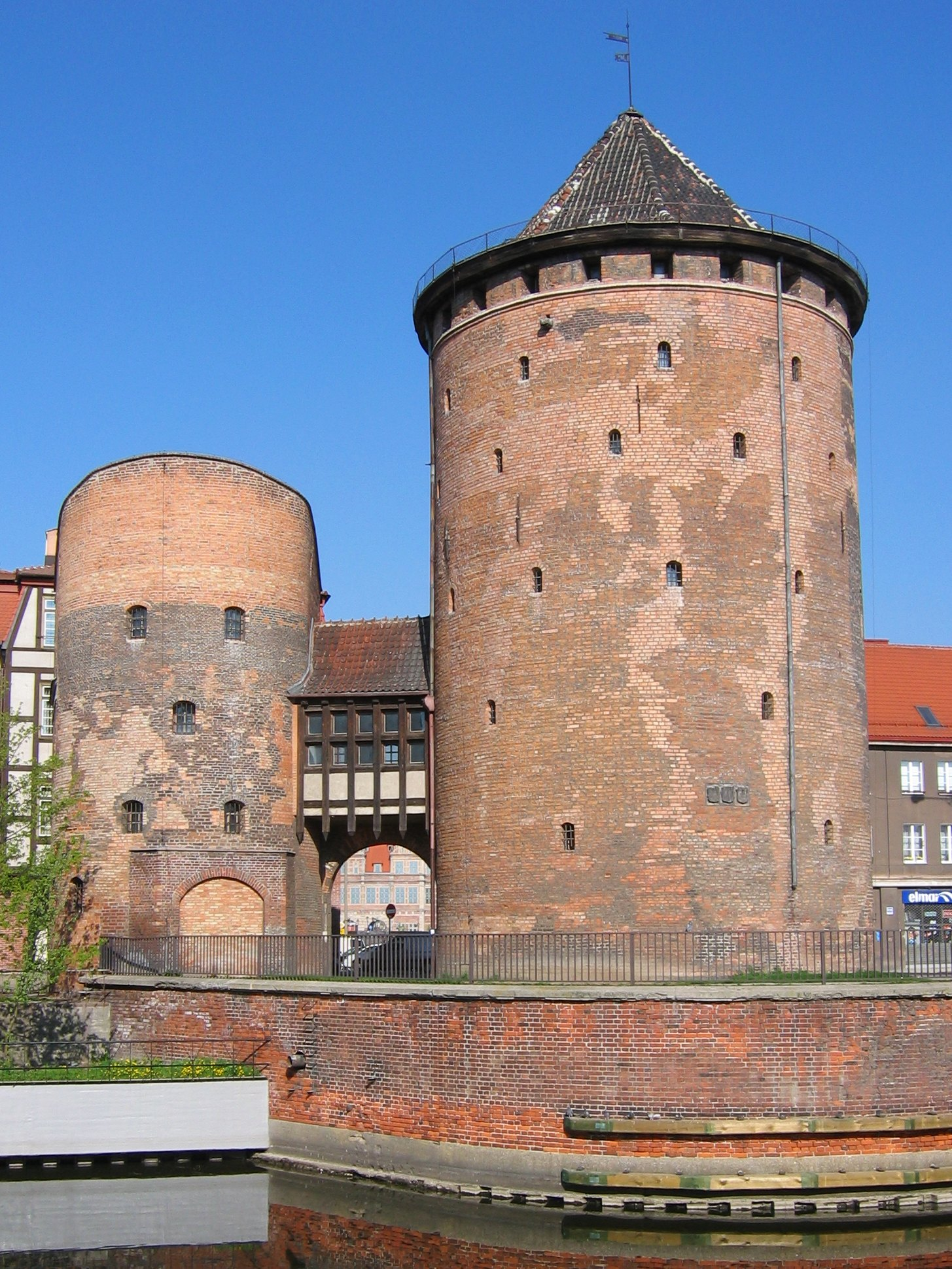 Historical city gate on Granary Island in Gdańsk, Poland.